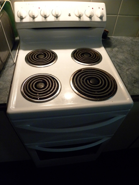 Electric oven/stove